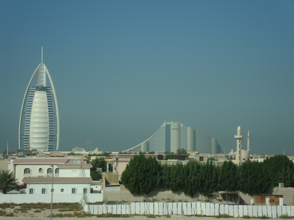 Taken from the metro, a view of the Dubai Skyline.